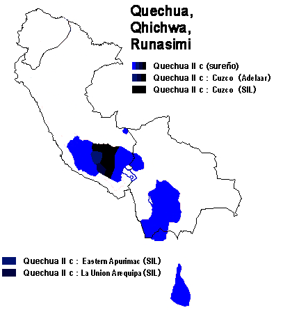 Cuzco Quechua within Quechua II a (Southern Quechua)